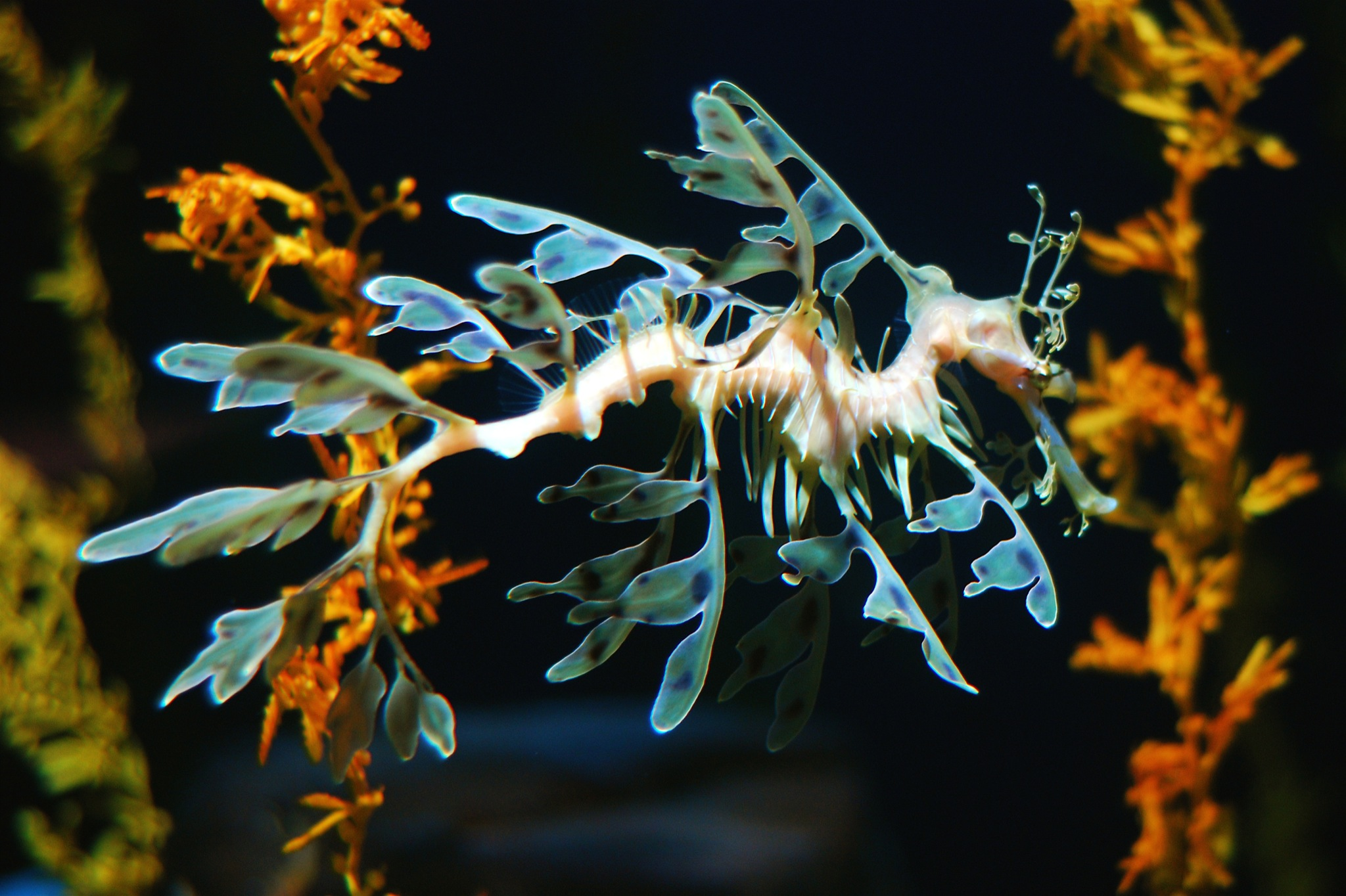 Leafy Sea Dragon